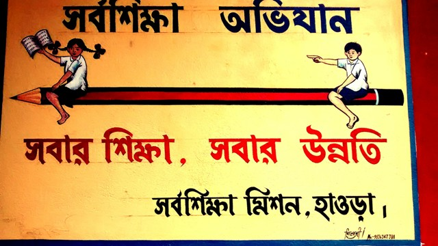 Sarva Shiksha Abhiyan (SSA)